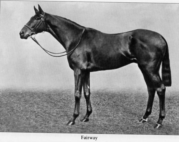 Photograph of racehorse Fairway. Taken c 1930. Definitely before 1942.